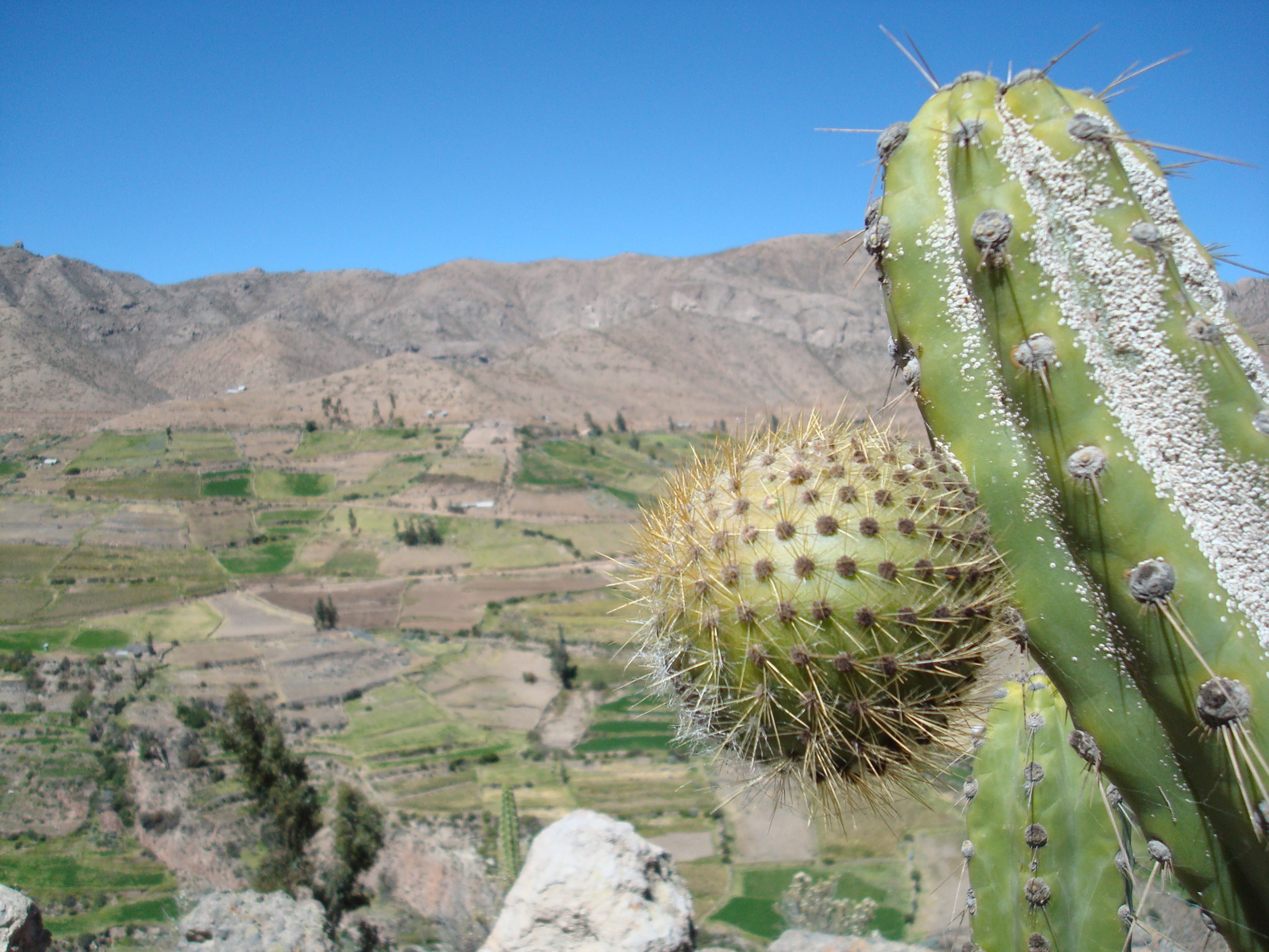 Corryocactus brevistylus (K.Schum.) Britton & Rose Taken in the town of Huanca, Arequipa, Perú